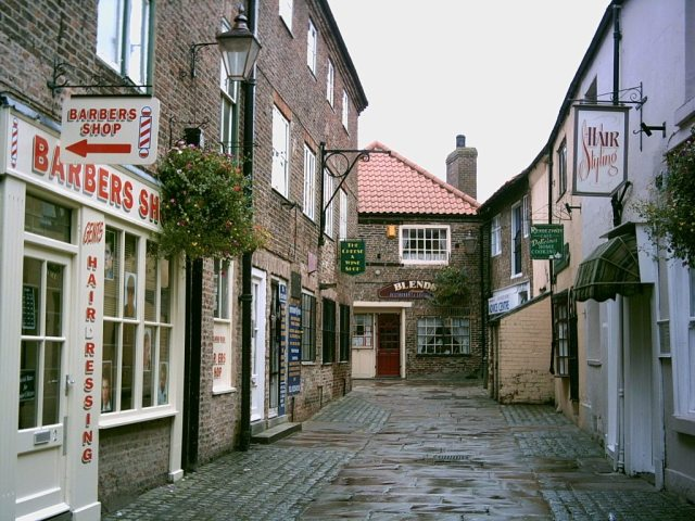 Clarks Yard, Darlington. One of the few remaining 'Yards' in Darlington centre, with 'Blends' cafe in the background